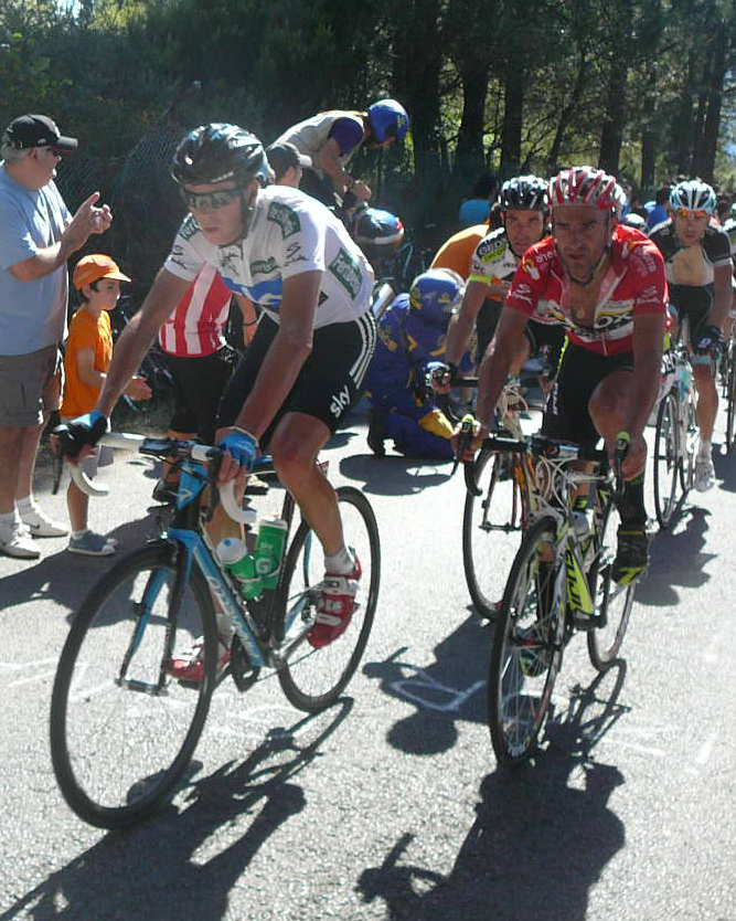 (From left to right) Jurgen Van Den Broeck, Chris Froome, David de la Fuente, Juan José Cobo, Maxime Monfort and Denis Menchov riding in stage 19 of the 2011 Vuelta a España